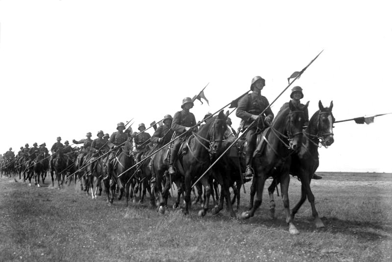 Information added by Wikimedia users.